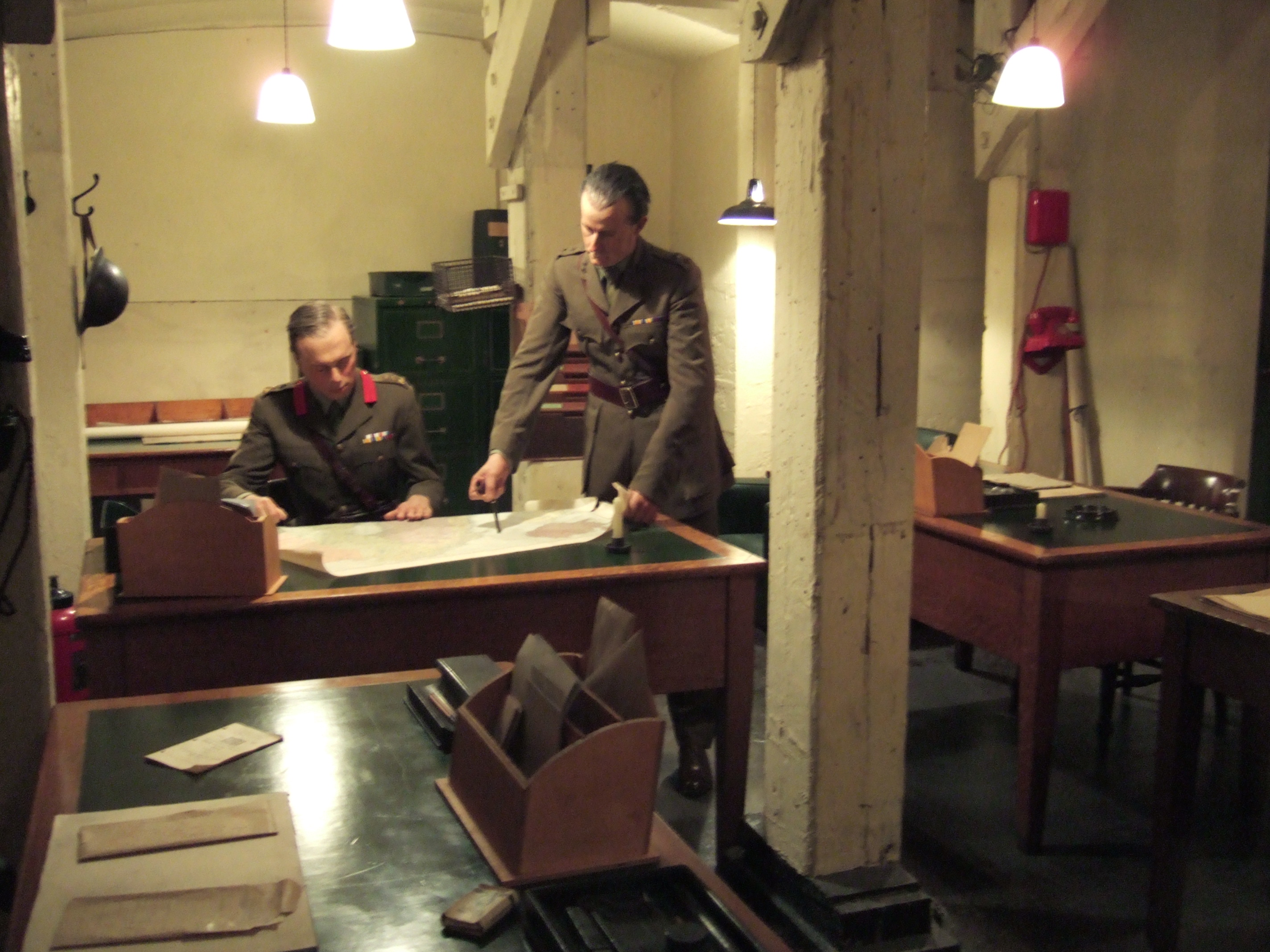 Churchill War Rooms, officers discussing, London